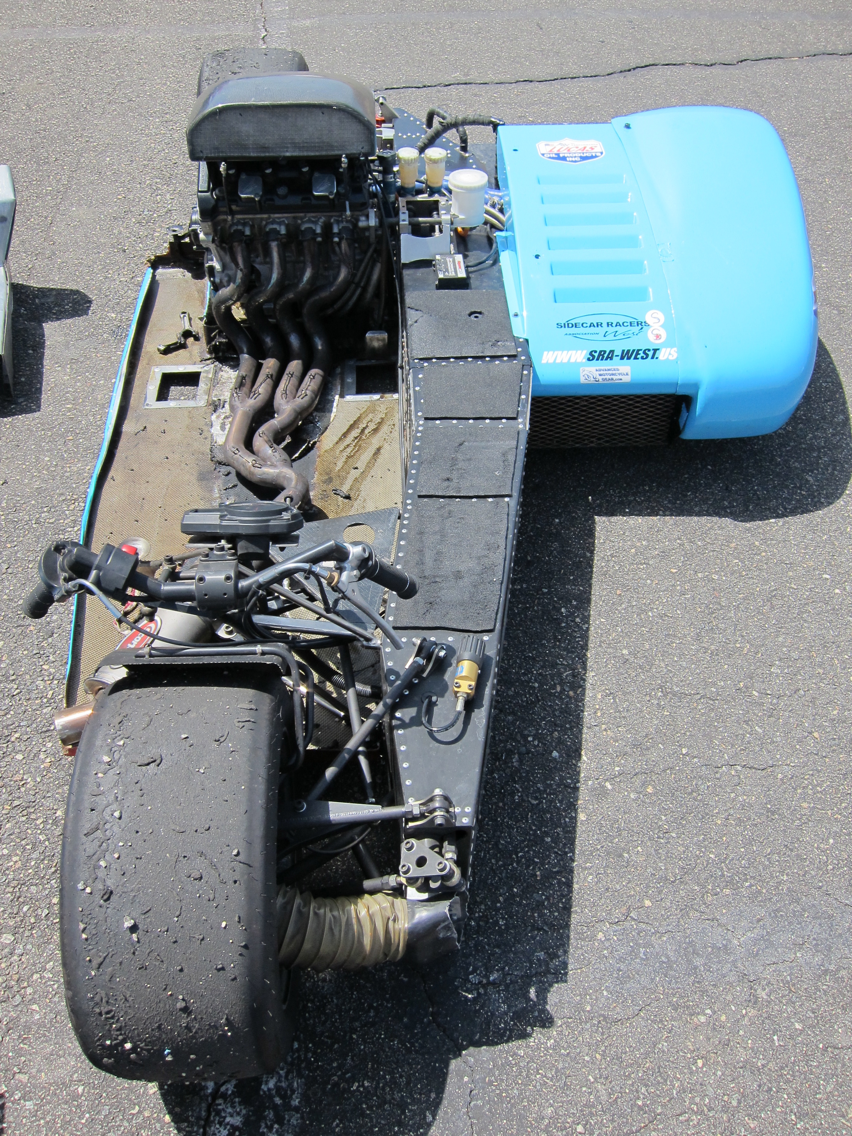 Modern racing sidecar (F1 class), with monocoque chassis, hub center steering and rear engine. Picture taken during "Corsa Motoclassica" @ Willow Springs Raceway. April 2012. The sidecar is of #49 Chris Wood and Brandon Matthews, ART/ Suzuki